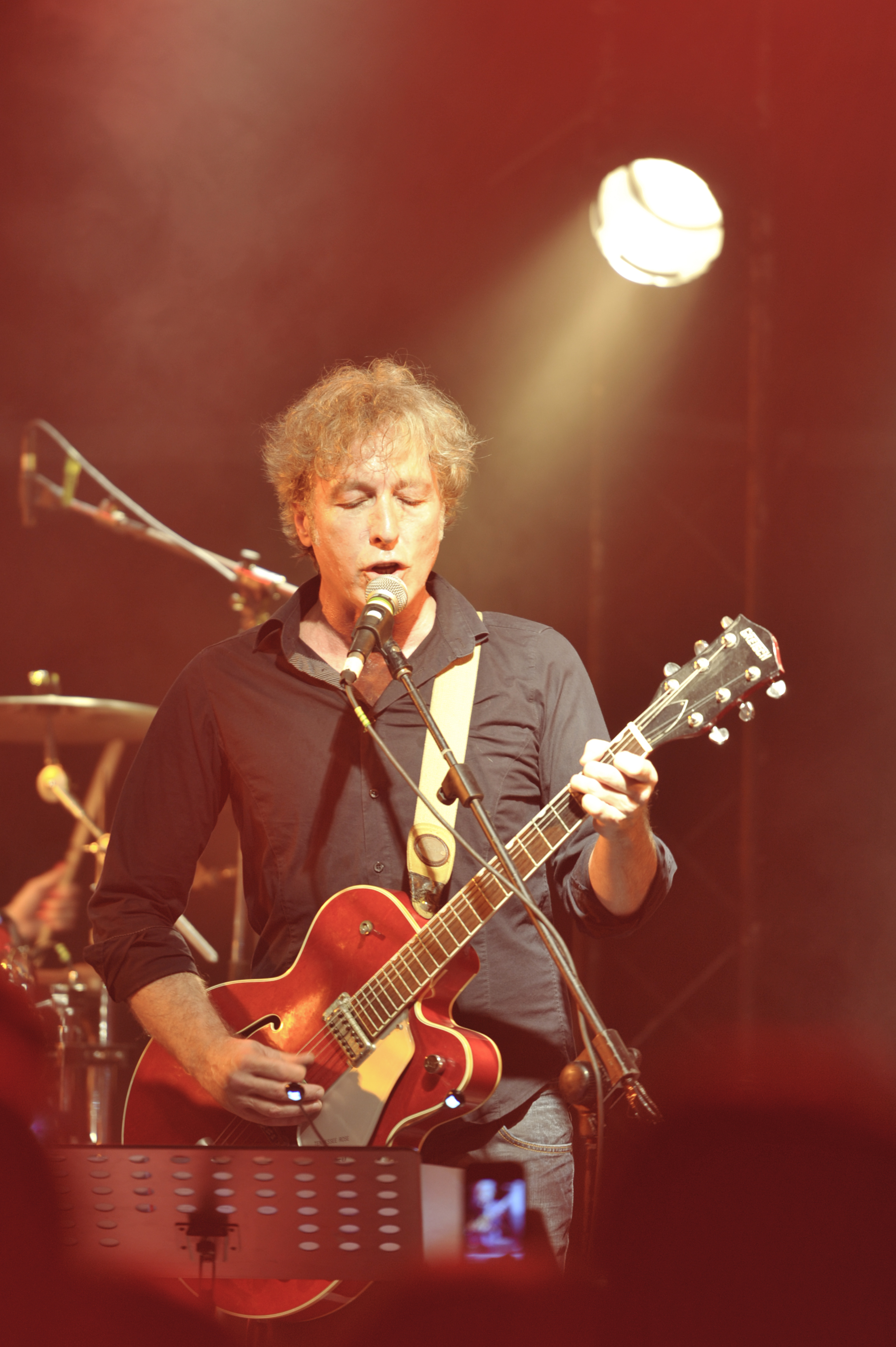 Berry Sakharof on stage at "The Barby" club, in Tel Aviv, Israel. Hosted by Assaf Amdursky